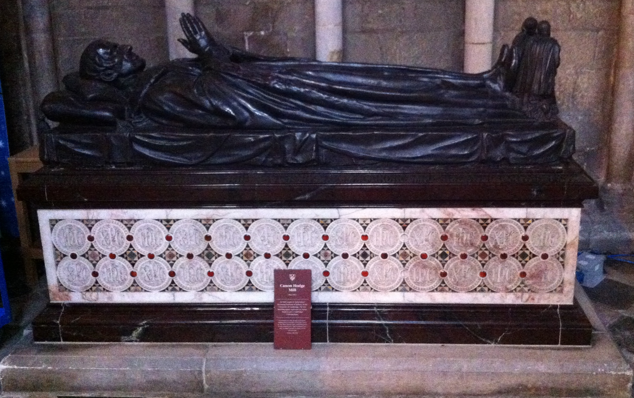 Dr Mill taught in India before becoming Professor of Hebrew at the University of Cambridge. Died 1853.